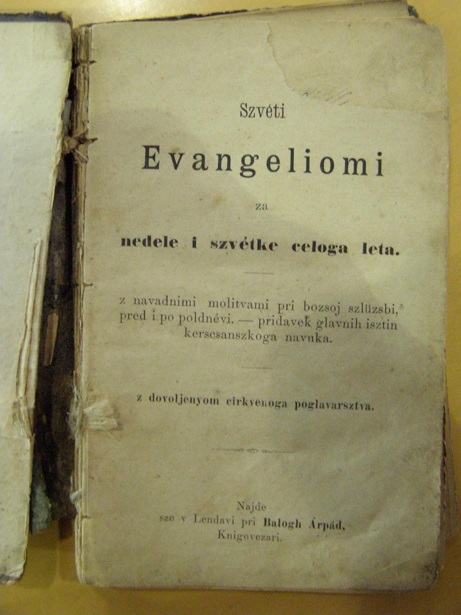 The Szvéti Evangeliomi of Miklós Küzmics (reprint 1858)